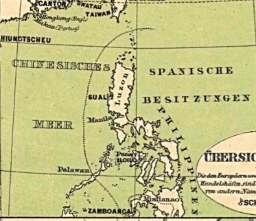 German map indicating the demarcation of Spanish-controlled territories vis-a-vis Moro dominated areas in the Philippine Islands, 1892